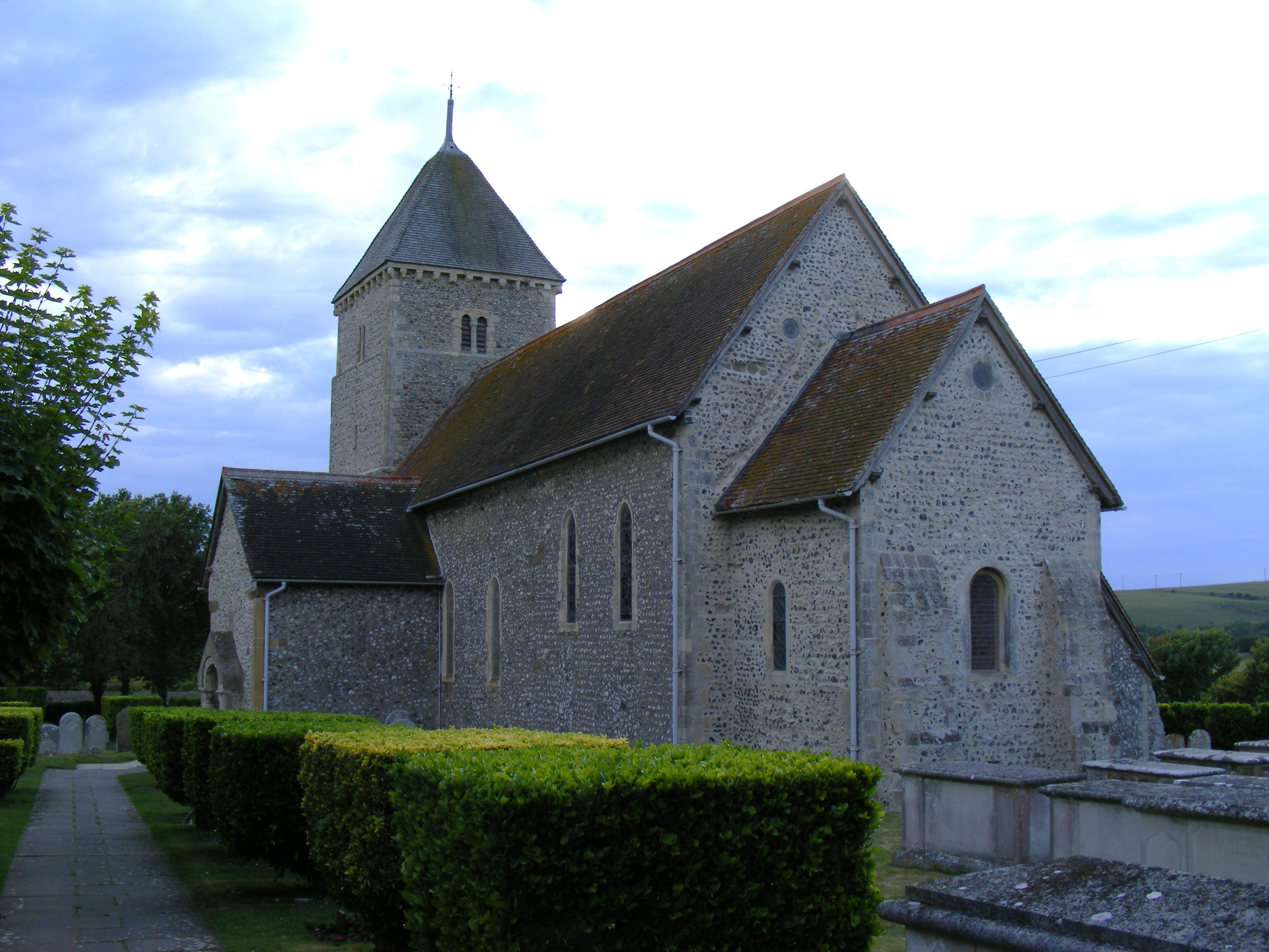 St Andrew, Bishopstone The Church was built between 600 and 800 AD and is perhaps the oldest Saxon Church in Sussex.